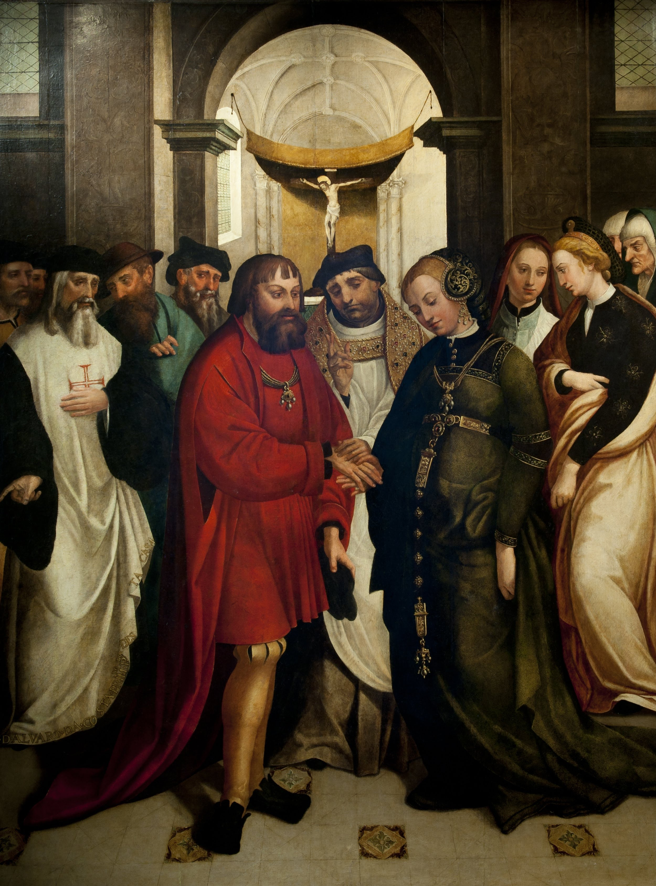 "Wedding of Saint Alexis" (1541), by Garcia Fernandes. This painting was, for a long time, mistakenly identified as featuring the third marriage of King Manuel I of Portugal with Eleanor of Austria.